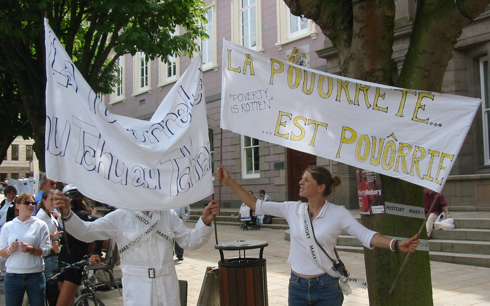 Event for Make Poverty History in the Royal Square, Jersey, 2nd July 2005. The signs are written in Jerriais and English ("poverty is rotten").